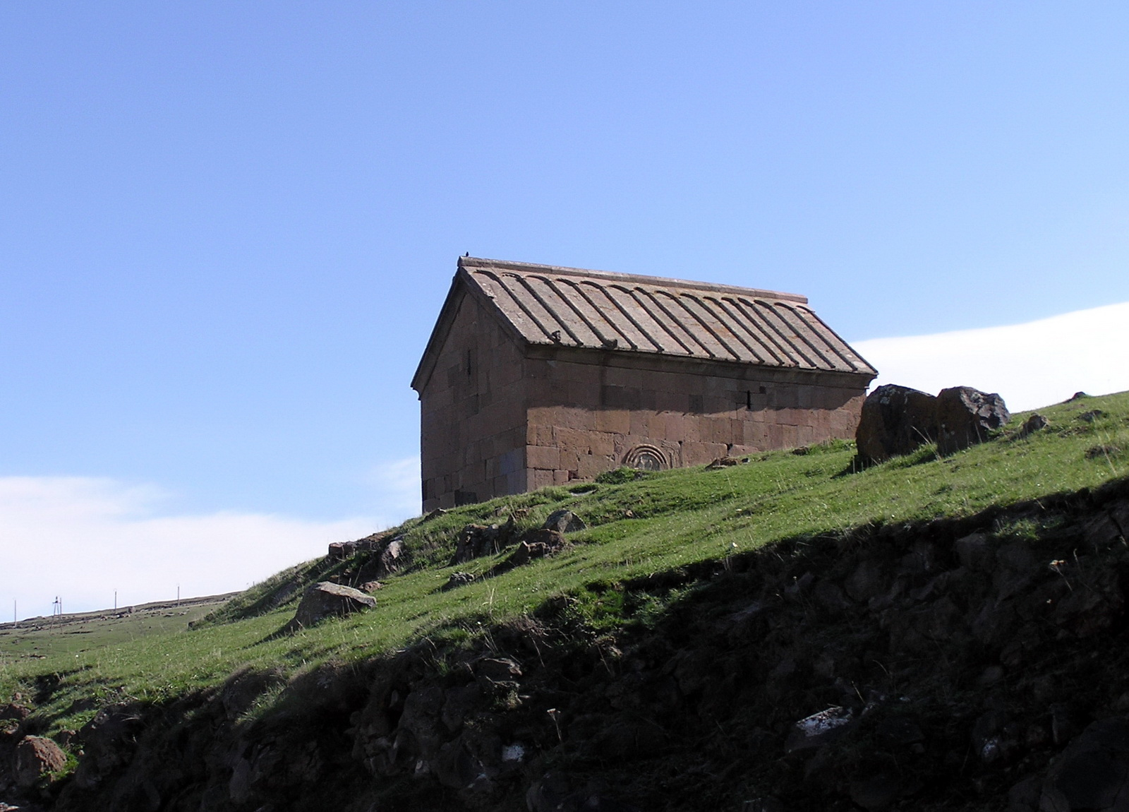 Javakheti Upland, Southern Georgia